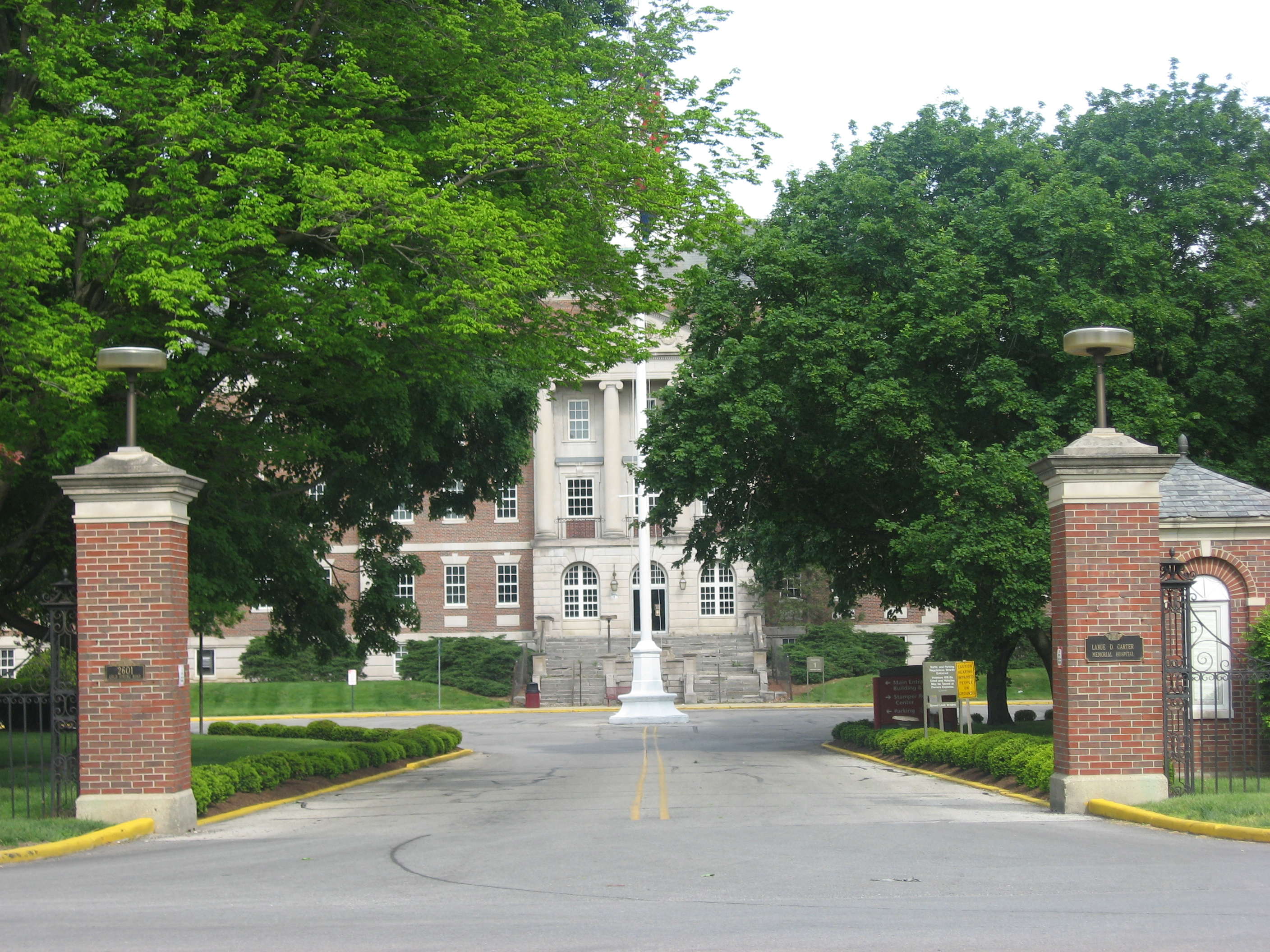 The gateway, main drive, and main building of the Indianapolis Veterans Administration Hospital, located at 2601 Cold Spring Road in Indianapolis, Indiana, United States. The complex is listed on the National Register of Historic Places.